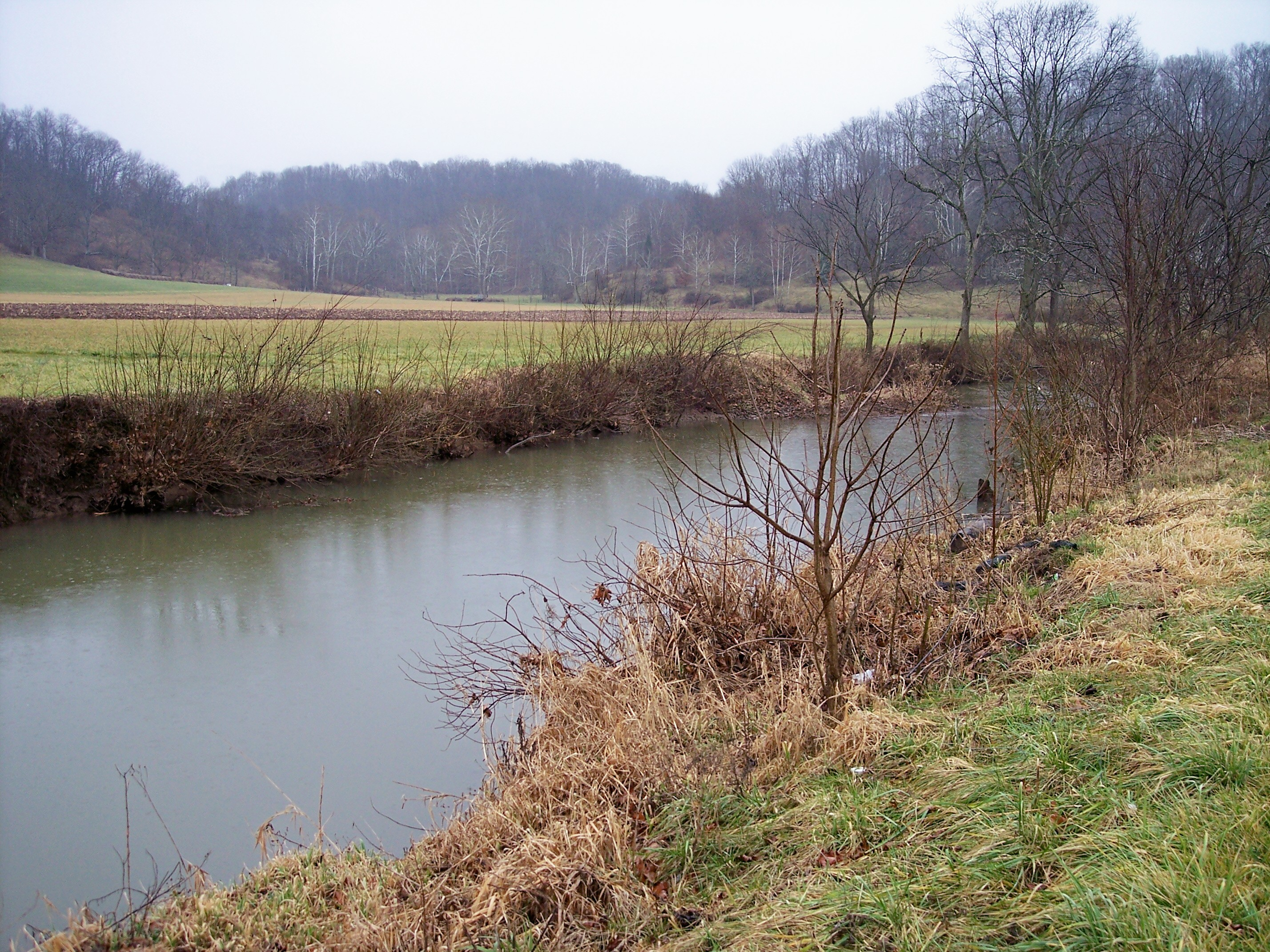 The East Branch of the Shade River as viewed from the grounds of Eastern High School in Chester Township, Meigs County, Ohio